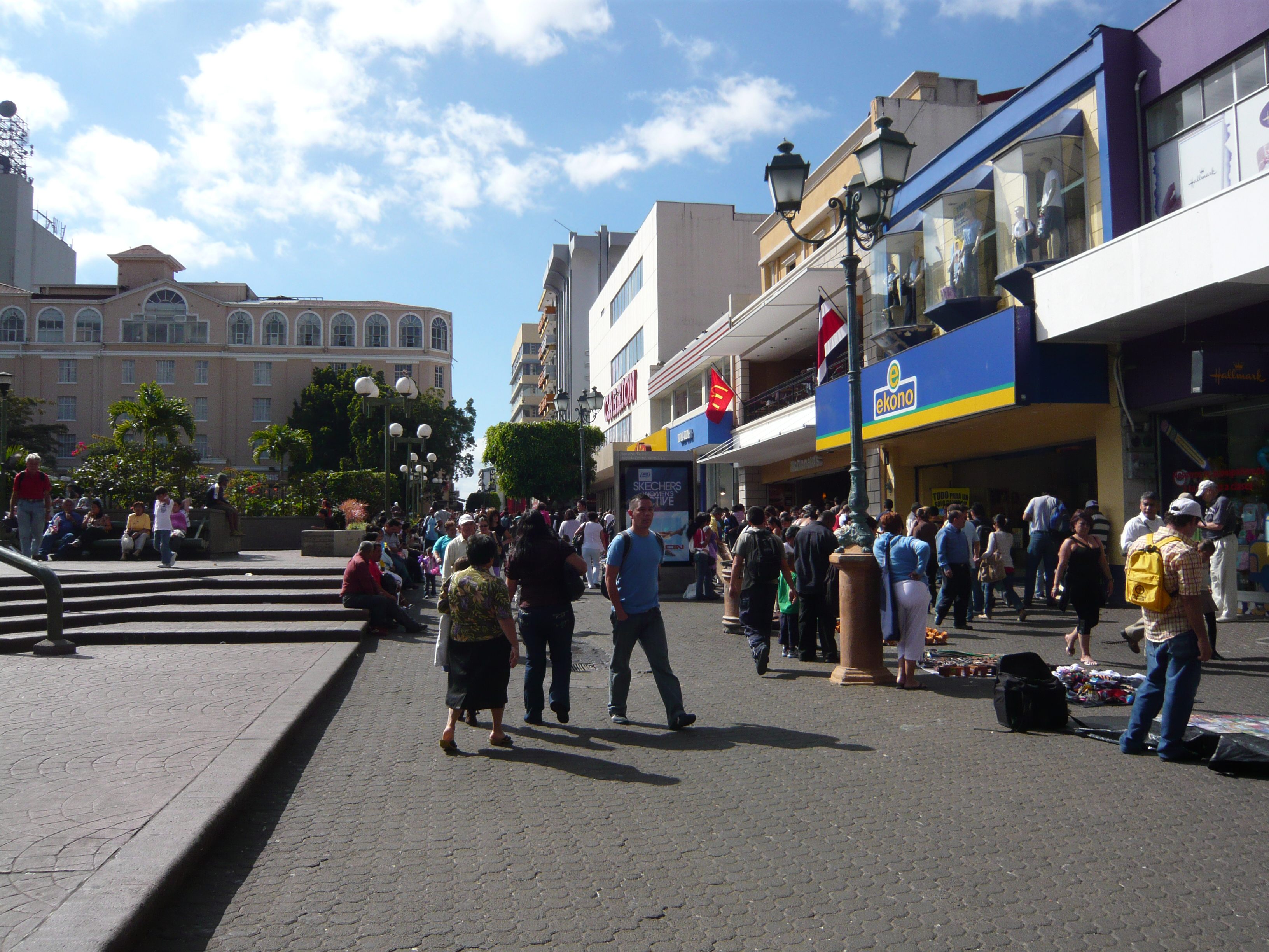 Avenida Central in San José, Costa Rica